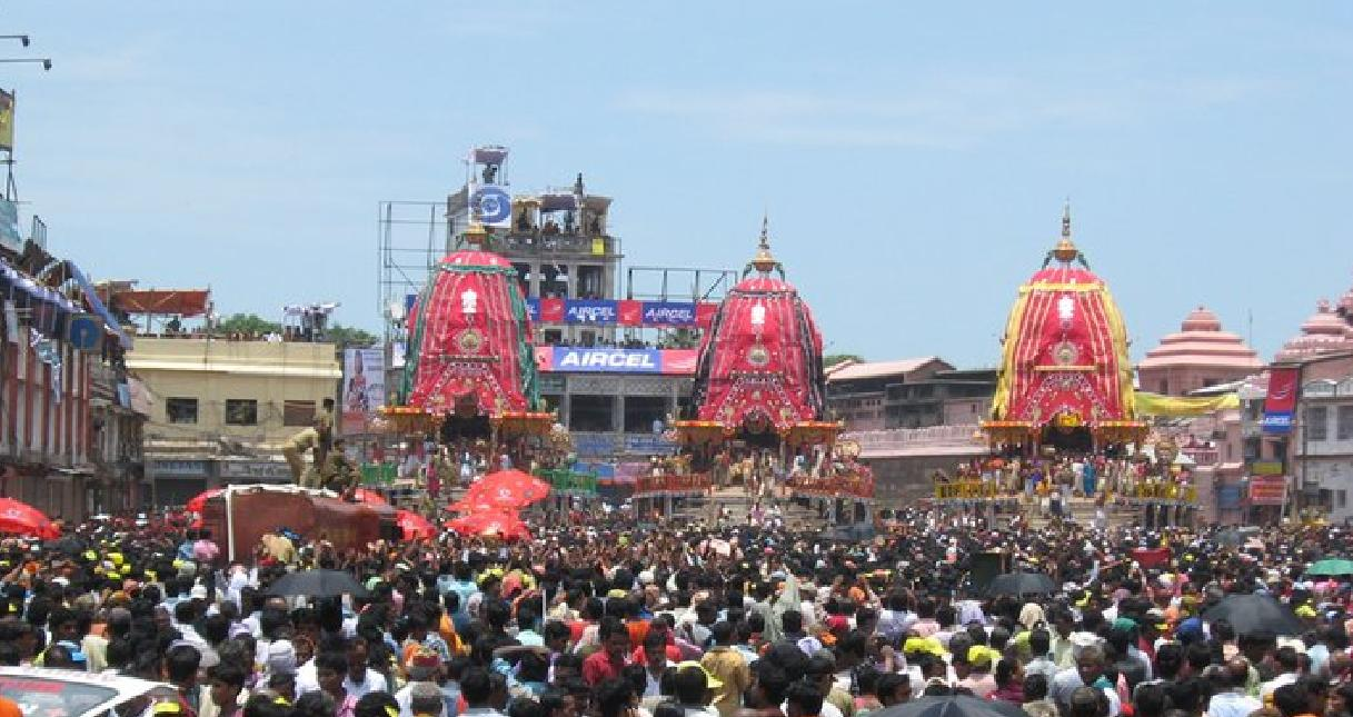 Chariots ready to be Pulled by the devotees, Lord Jagannatha Ratha Jatra, Puri